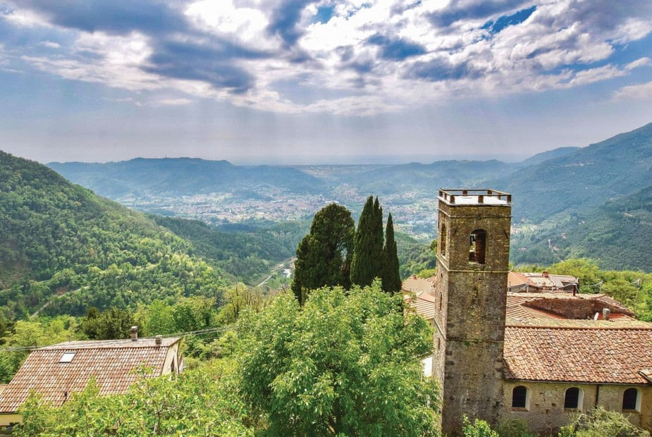 View from Metato (Camaiore)